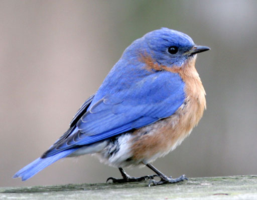 Eastern Bluebird, male, Sialia sialis. Location: Durham County, North Carolina, United States.